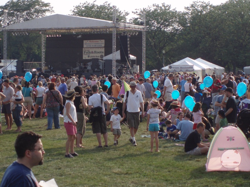 Main Stage and crowd of Chicago's Folk & Roots Festival in July 2006.